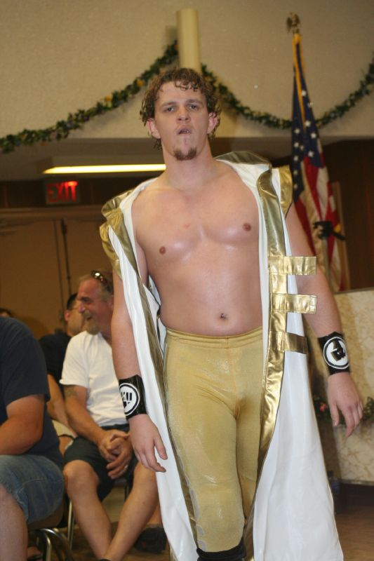 Professional wrestler Icarus at a Chikara event